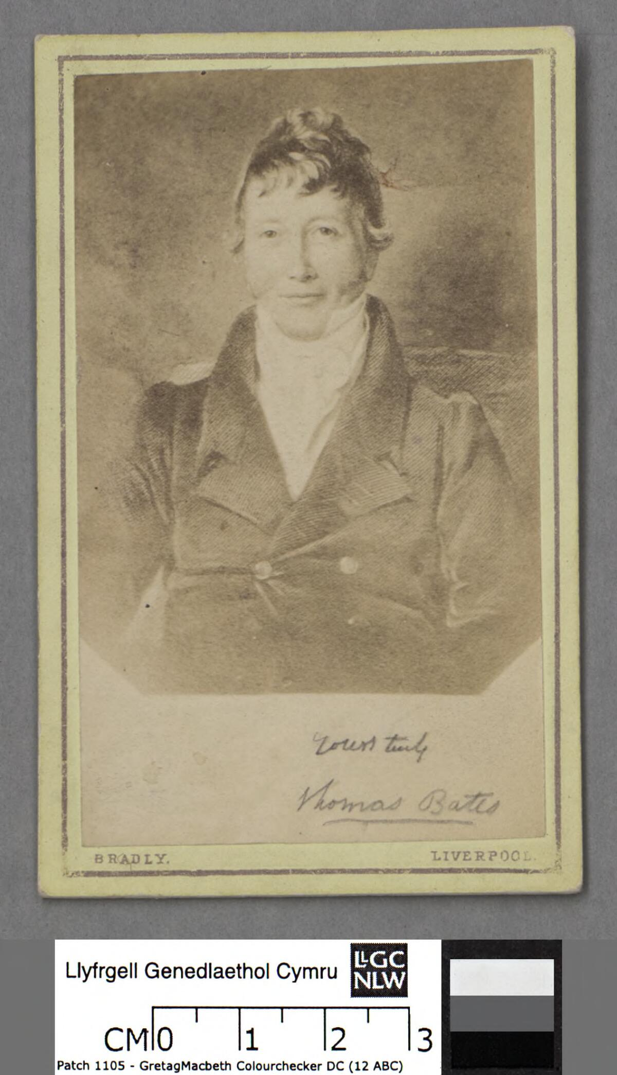 A portrait from the Welsh Portrait Collection at the National Library of Wales. Depicted person: Thomas Bates – English surgeon